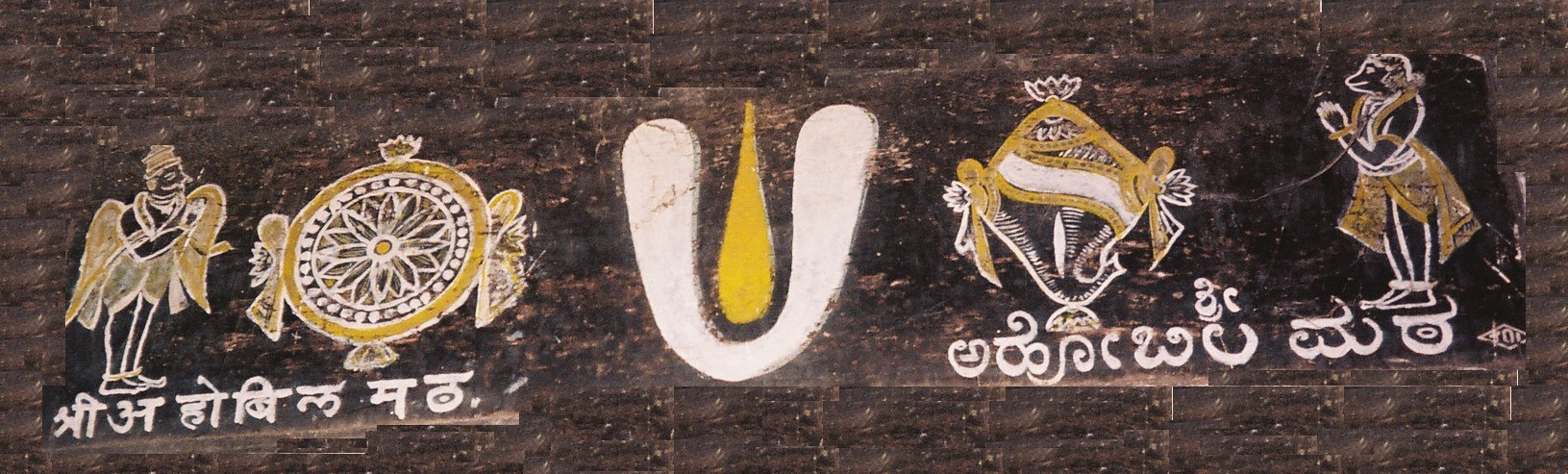 Cast symbol of Vadagalai Iyengars